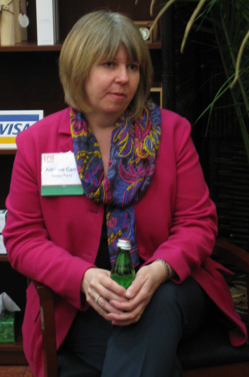 Adriane Carr, Deputy Leader of the Green Party of Canada.